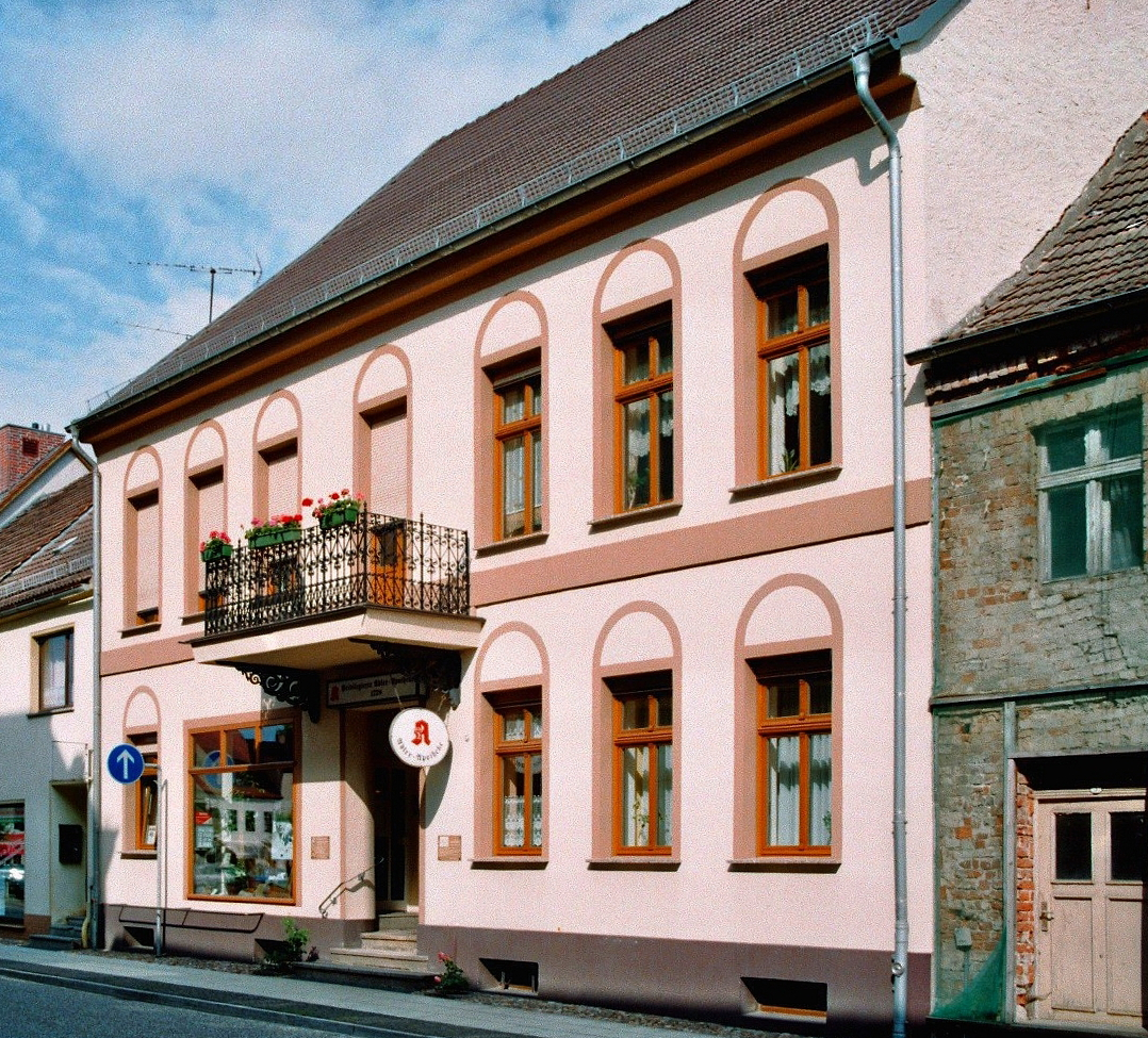 Adler-Apotheke, a pharmacy building with a long tradition since 1824, in Lieberose, Landkreis Dahme-Spreewald, Brandenburg, Germany.